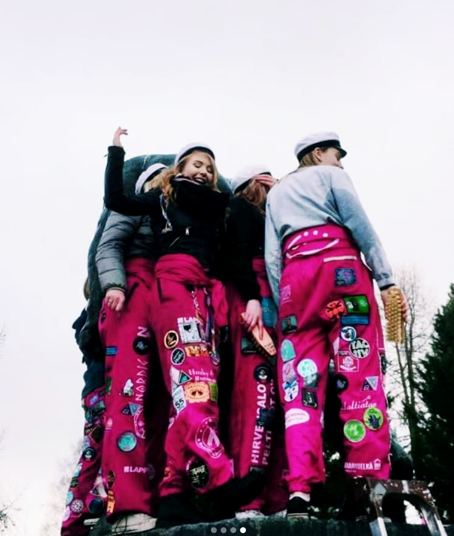 Vappu traditions 30.4.2018 Rovaniemi